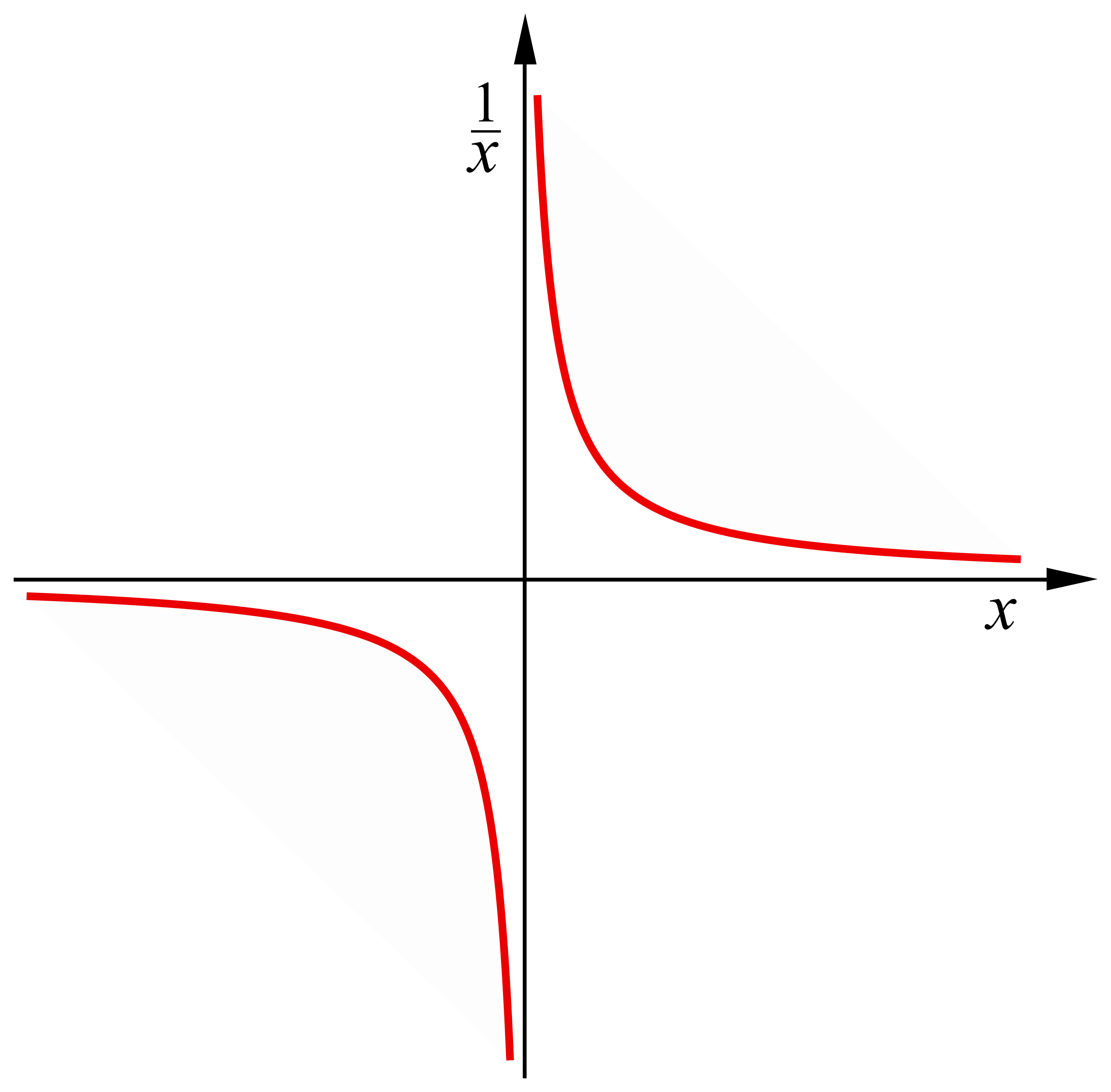 limits for 1/x